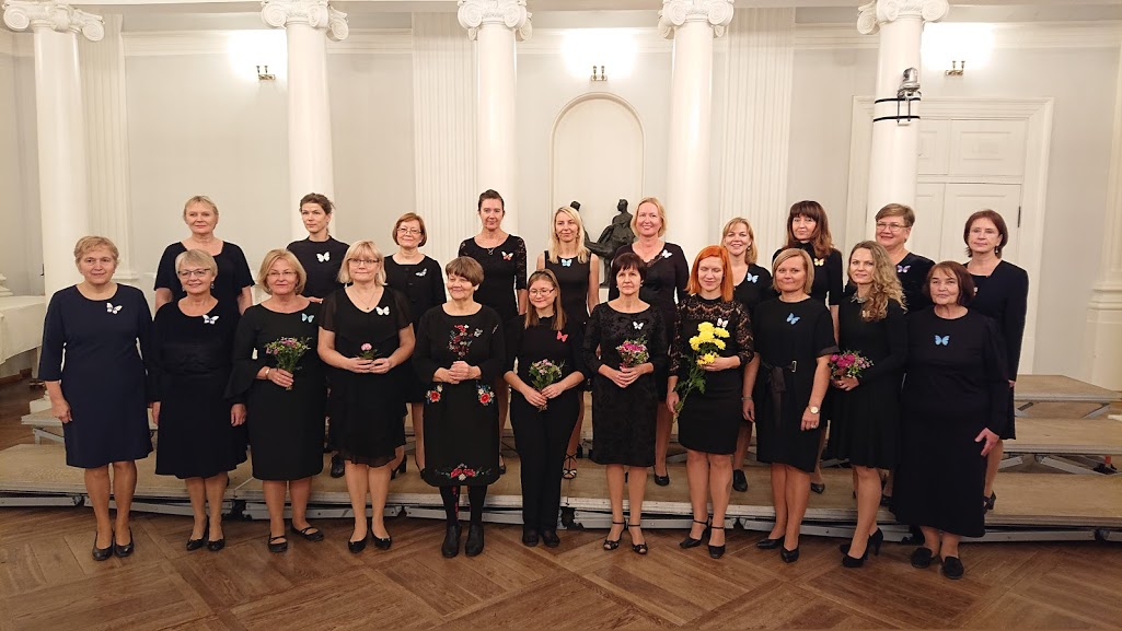 Choir conductor Vaike Uibopuu and the chamber female choir Liivitar founded by her in 2017. After the concert in the Main Hall of the University of Tartu.